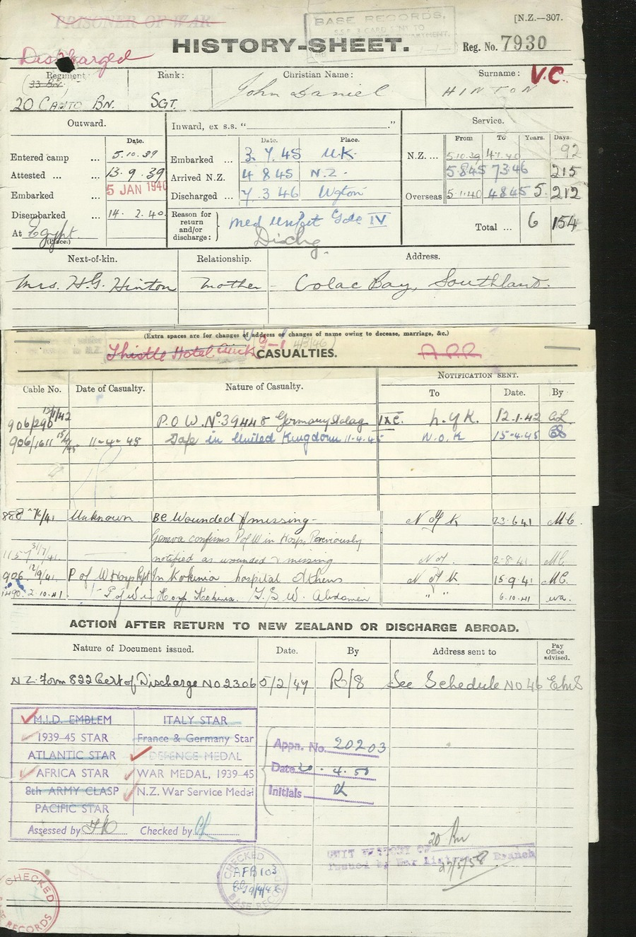 Military history sheet from the personnel file of John Daniel Hinton. Served in the New Zealand Army during WWII (1939 - 1957). Recipient of the Victora Cross (Gallantry Medal). Archives New Zealand Reference: AAAL 18806 W478 2